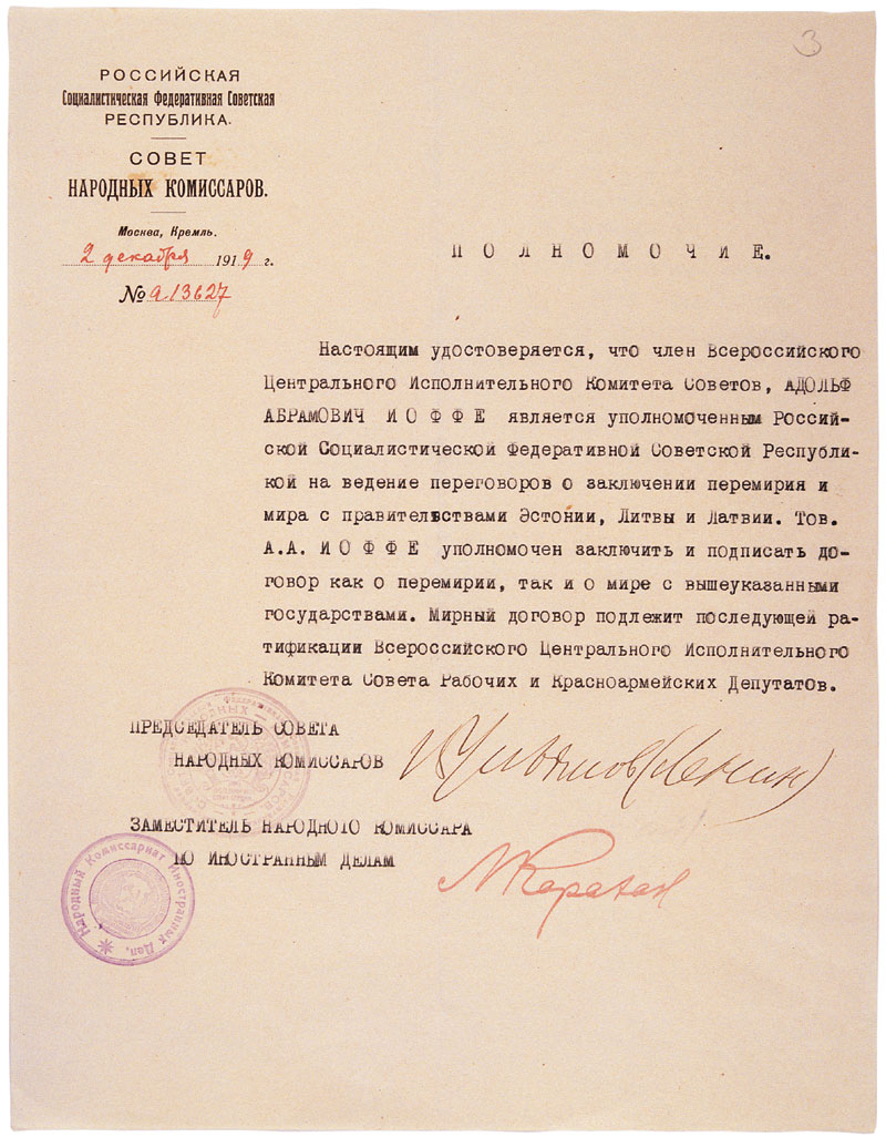 Power of attorney for Abram Ioffe by Vladimir Lenin to represent Soviet Russia with Estonia.